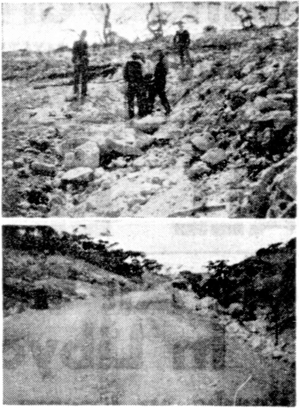 The Madura Pass on what is now the Eyre Highway in 1941, before (top) and after (bottom) construction. Original caption: "Top: Madura Pass as it was and (below) as it is now."